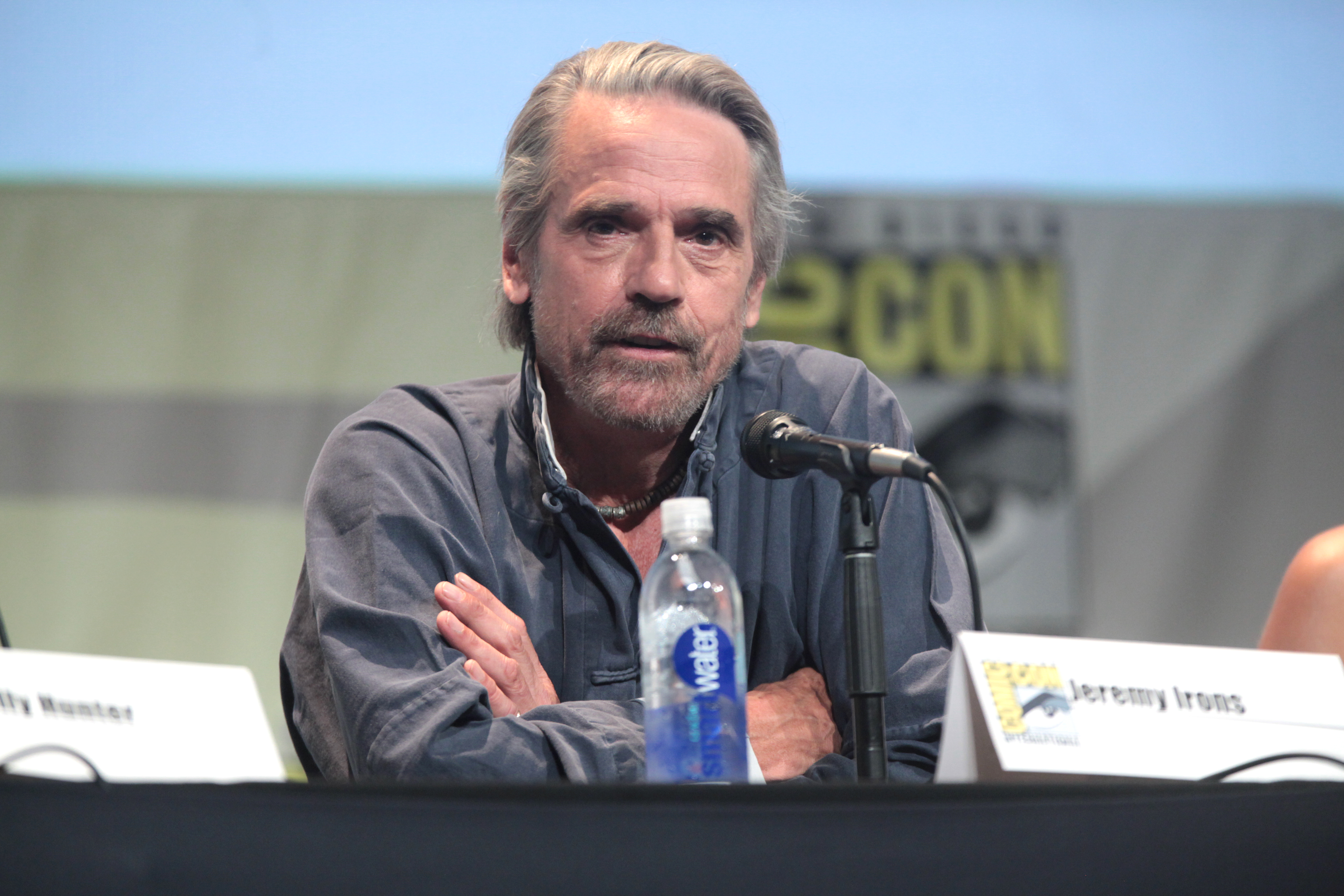 Jeremy Irons speaking at the 2015 San Diego Comic Con International, for "Batman v Superman: Dawn of Justice", at the San Diego Convention Center in San Diego, California.